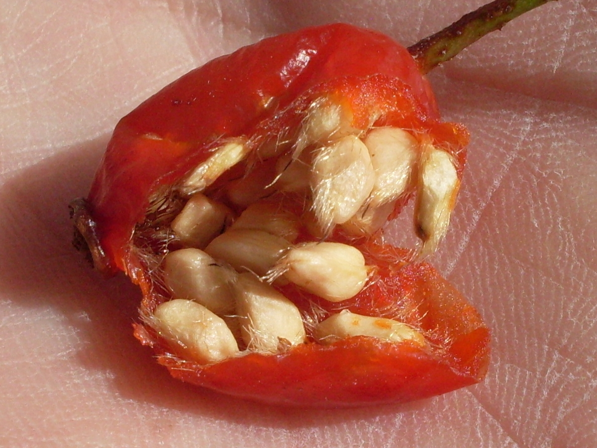 Seeds of a Briar Rose (Rosa rubiginosa). Gundaroo Common, Gundaroo NSW Australia, April 2009.